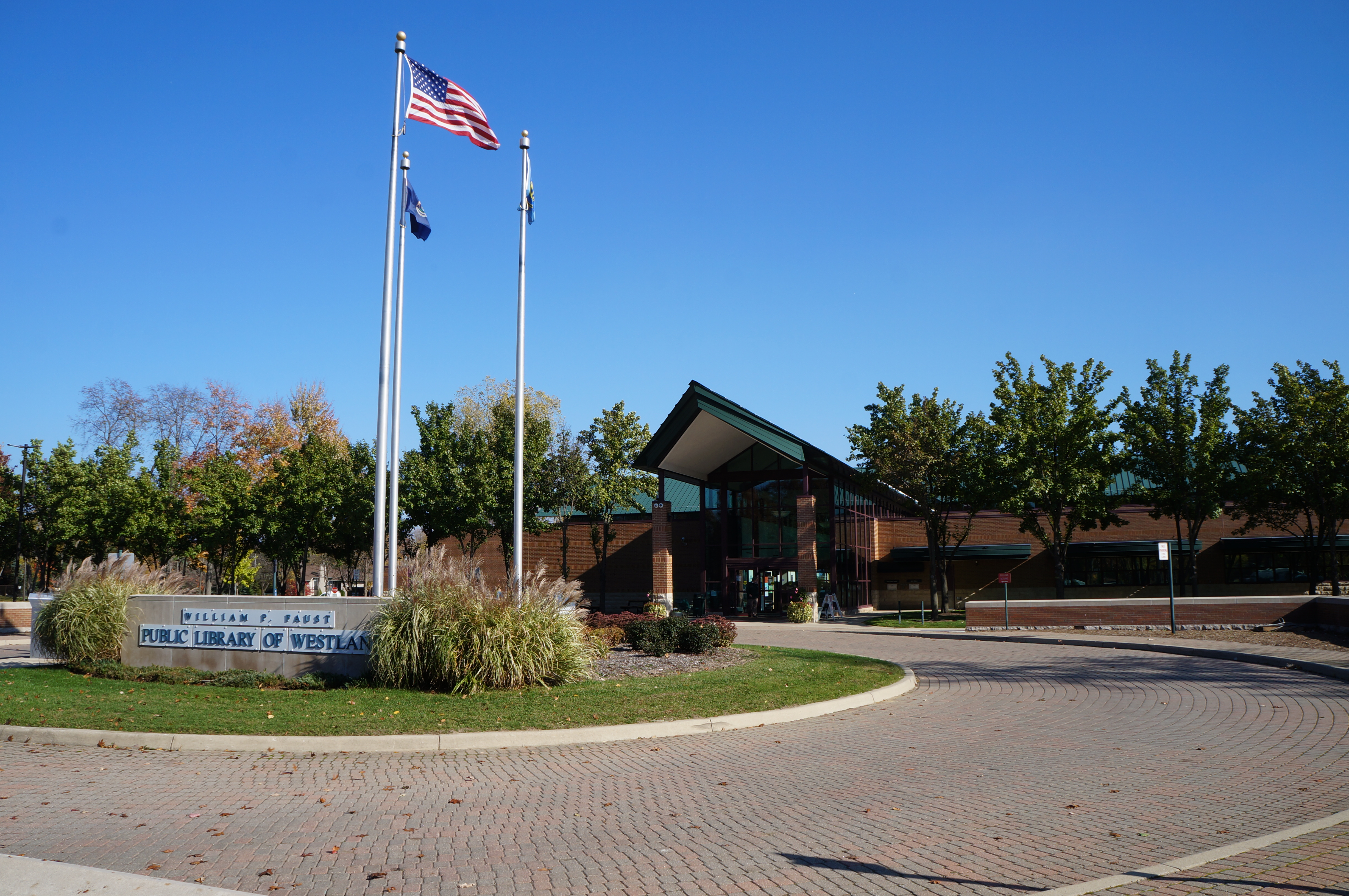 The William P. Faust Public Library, Westland, Michigan